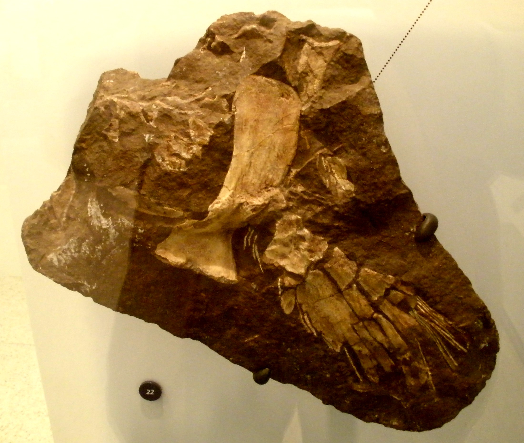 fossil of Sauripteris taylori, an extinct fish